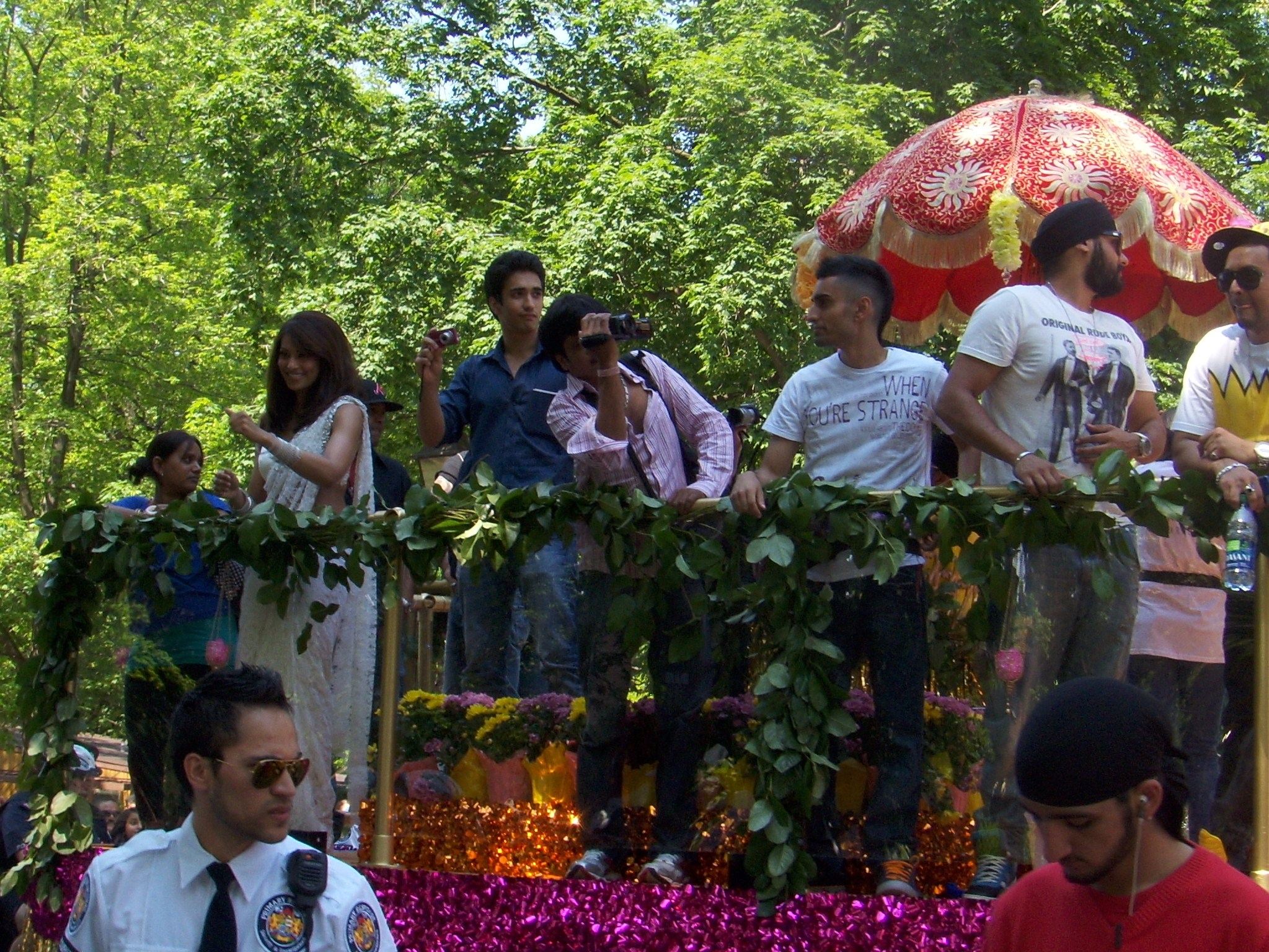 Bipasha Basu and members of RDB ride on a float in the 2011 Flower City Parade, in Brampton, Ontario, Canada.